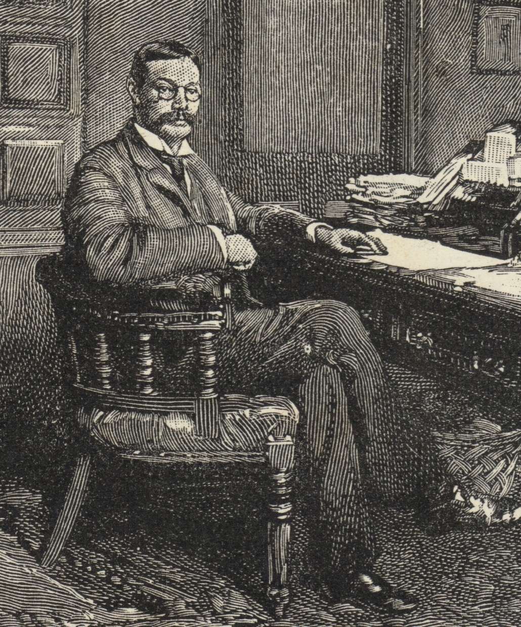 Herbet Greenhough Smith - Editor of the Strand Magazine